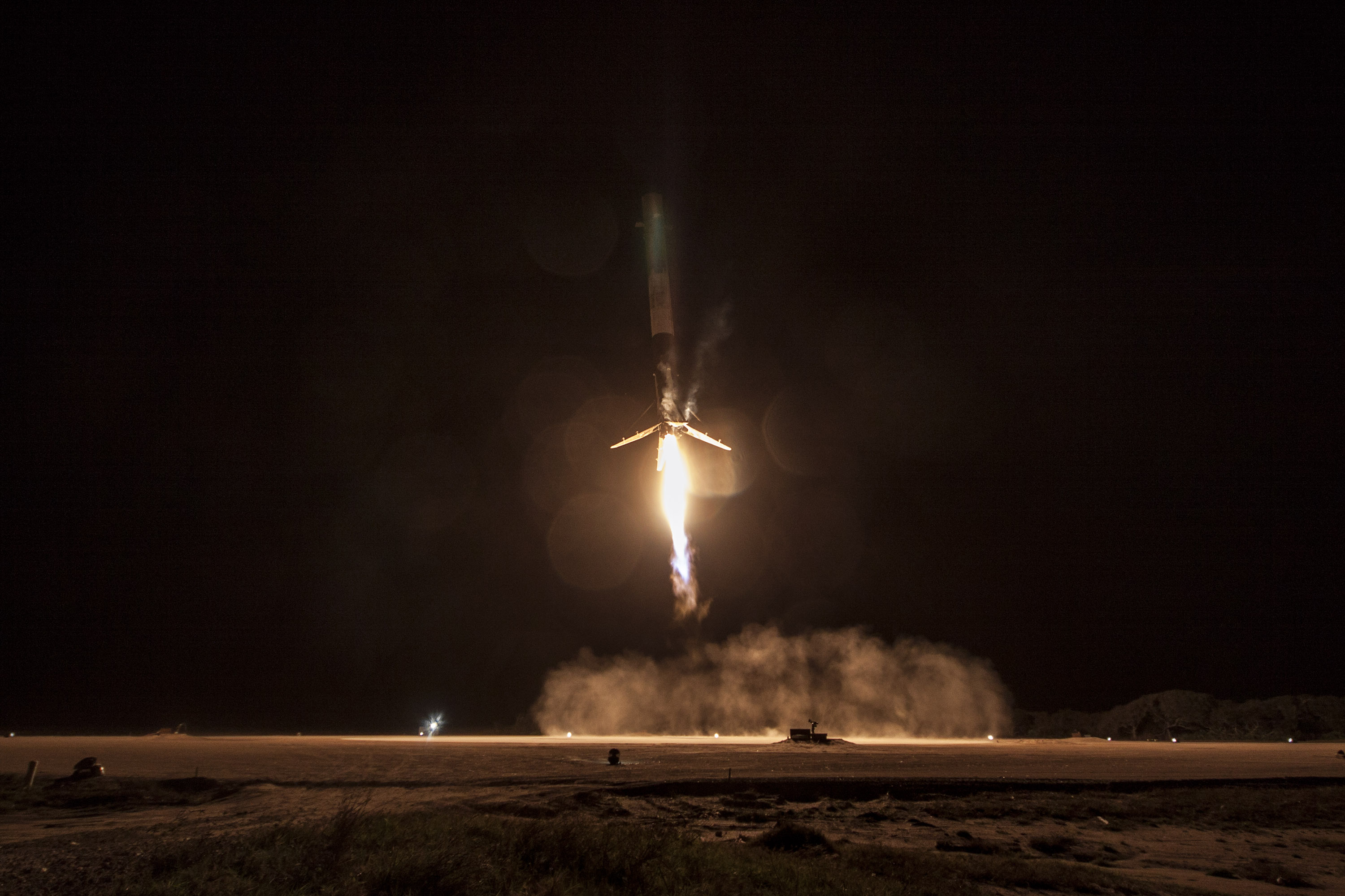 ORBCOMM-2